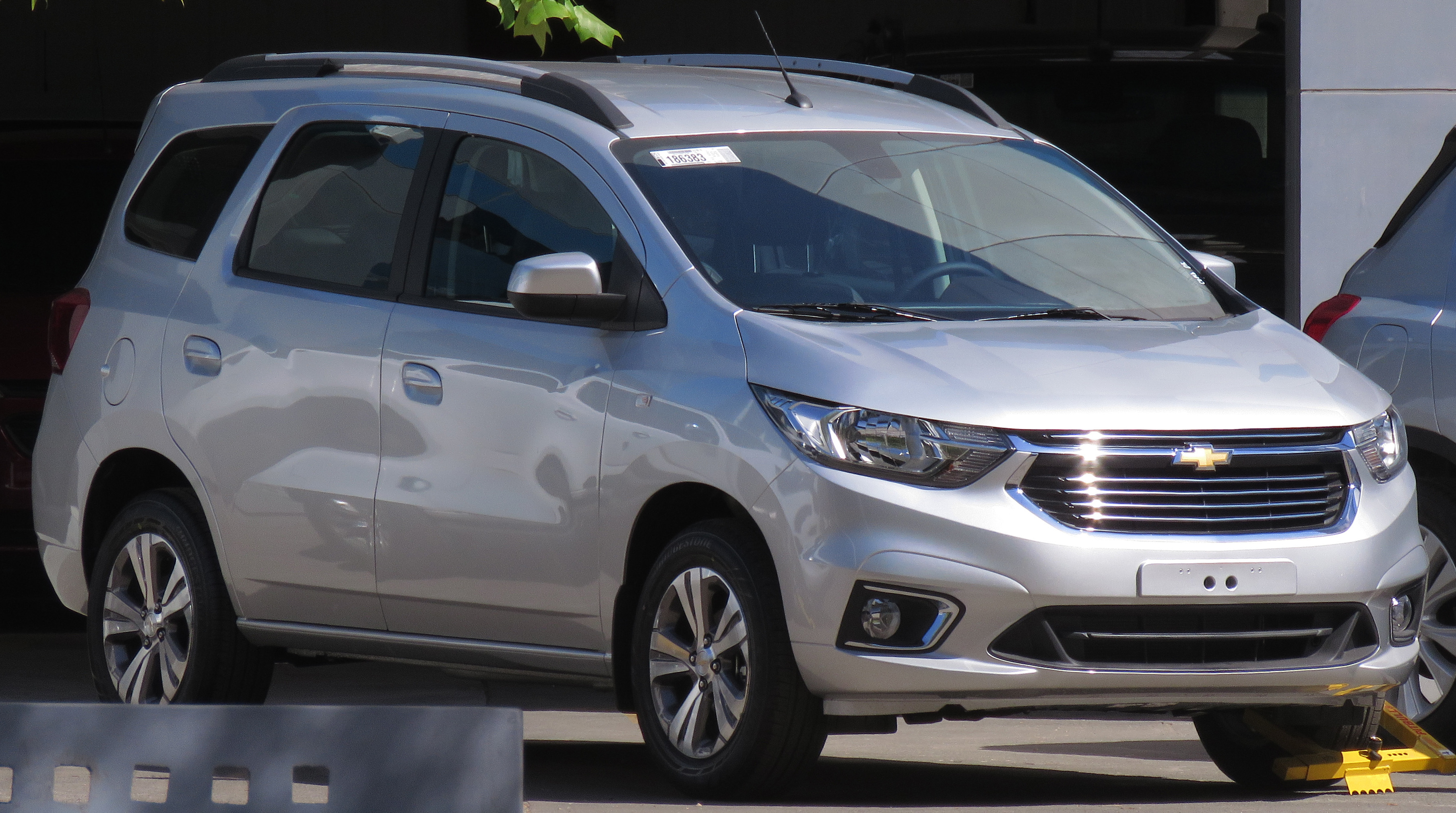 Chevrolet Spin in Chile